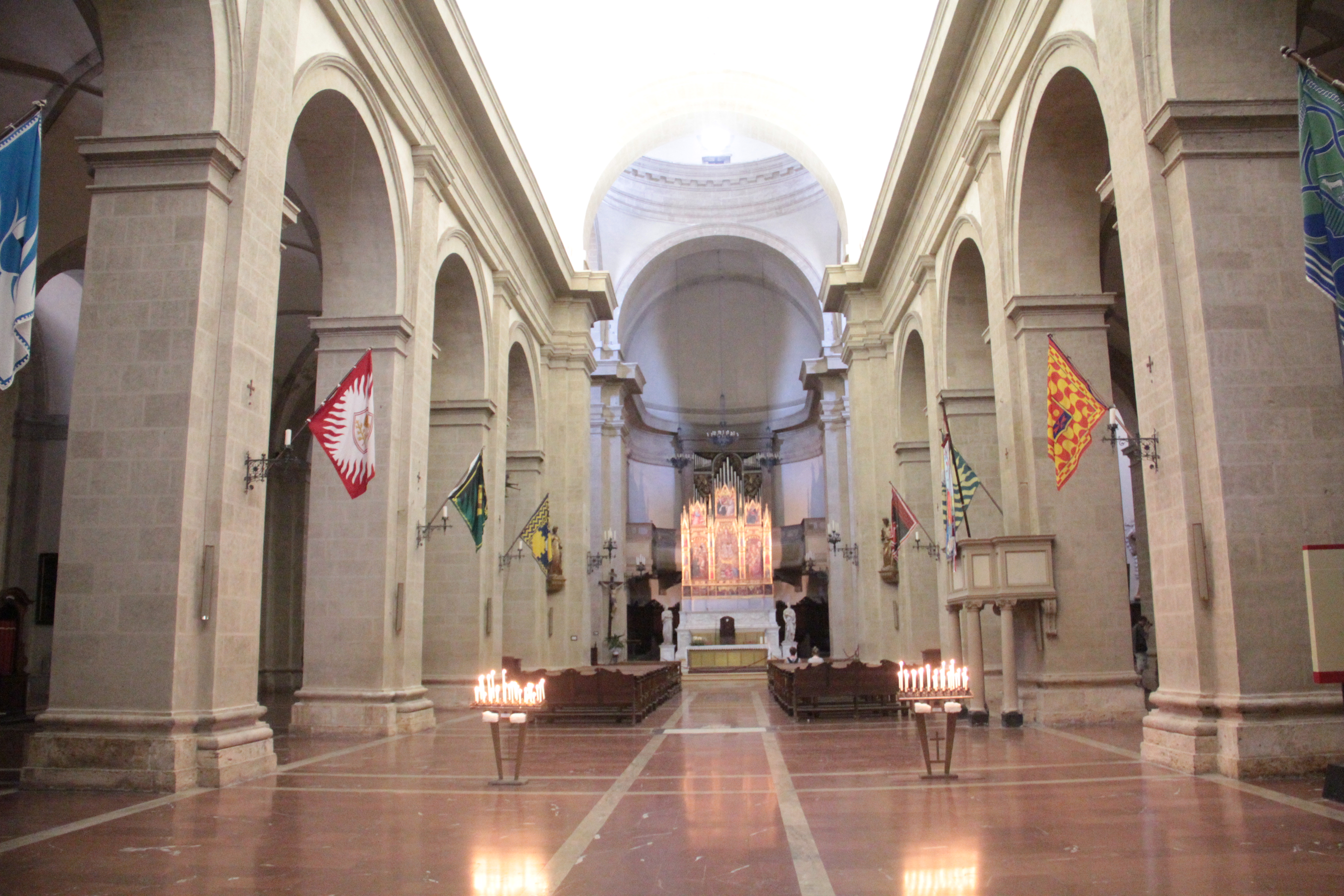 Inside church Montepulciano